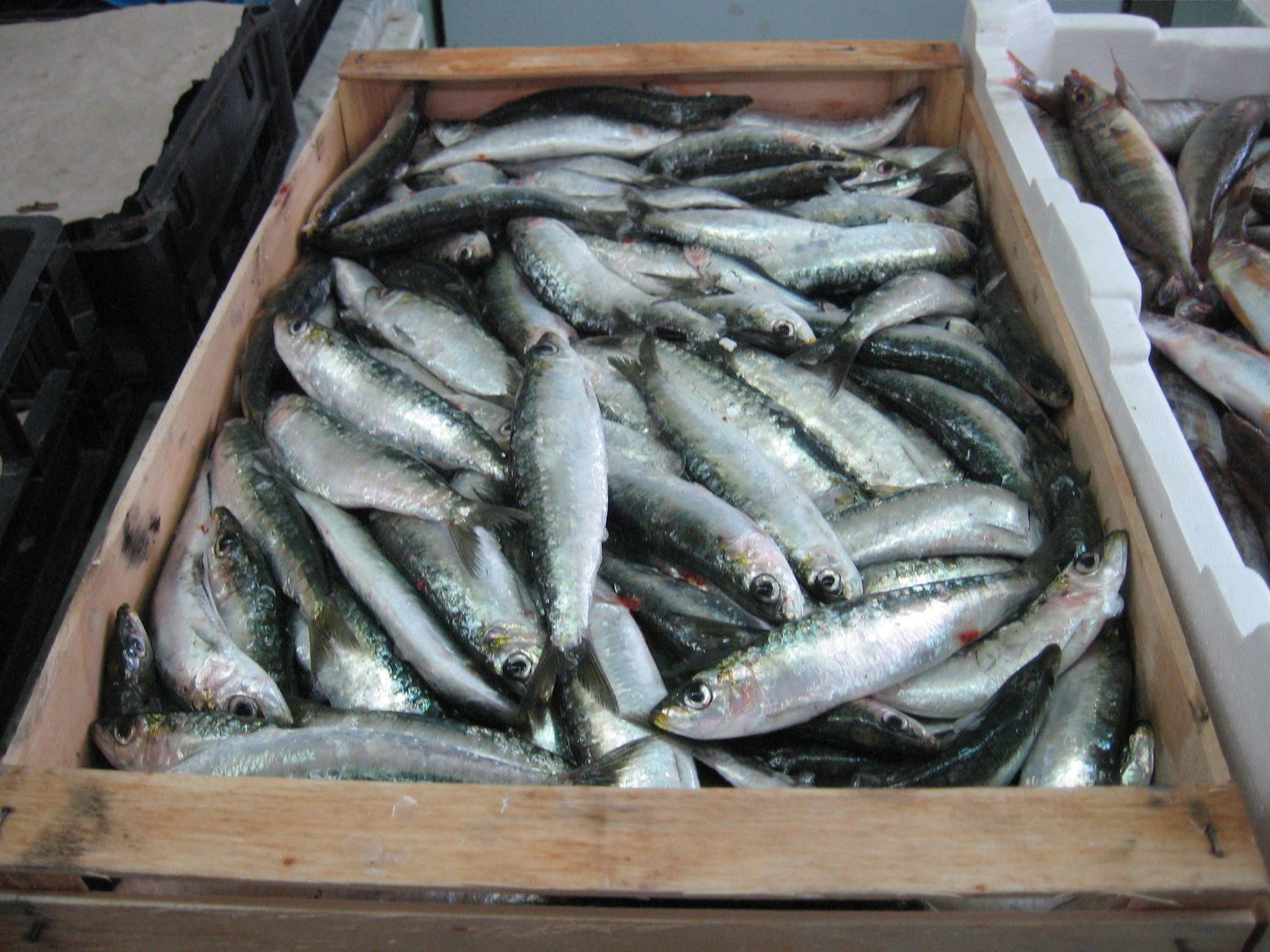 Local sardines at the Cagliari market.